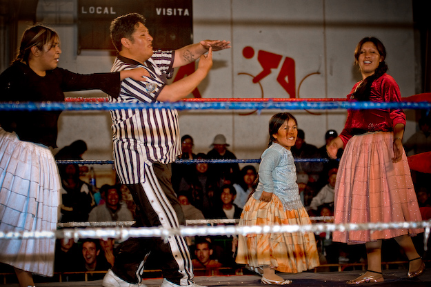 cholia wrestling bolivia el alto